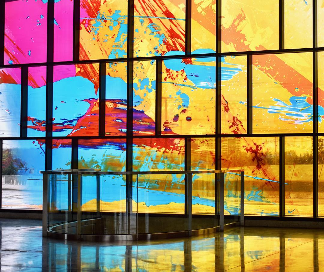 Sky Ellipse art wall at Highway 407 station.Original description: “via Instagram ift.tt/2htuNoy”.